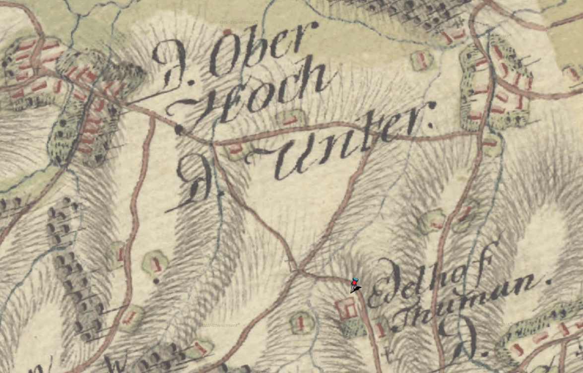 old map of Oberhaag and Thunau Castle